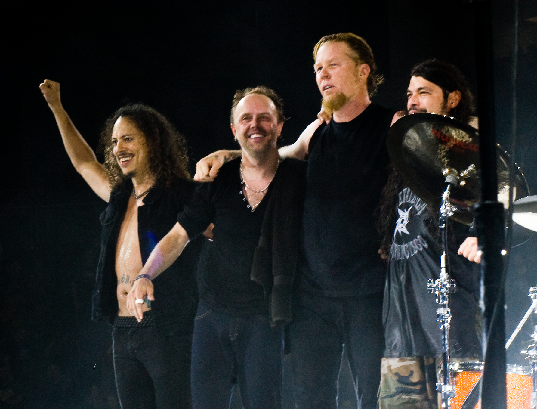 Metallica live at The O2 Arena, London, England